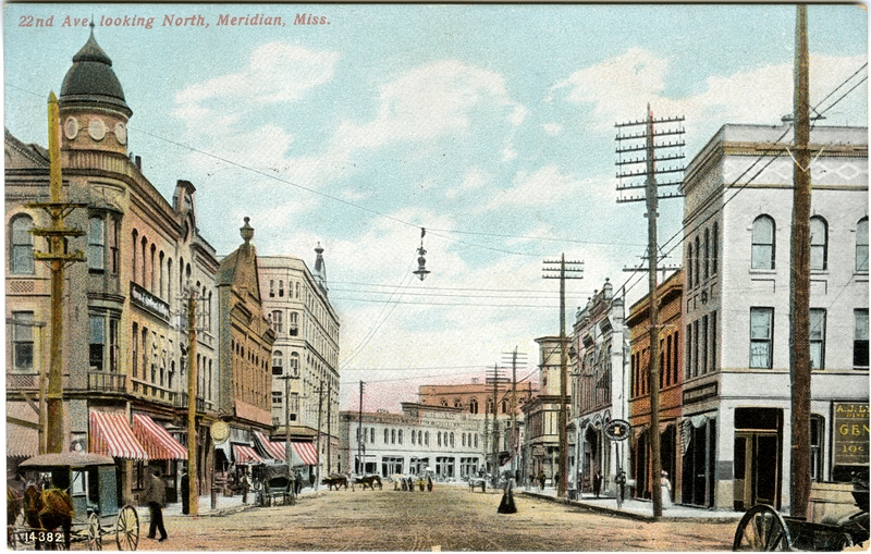 Meridian, Mississippi, in the early 20th century. View is from 22nd Ave, looking north.